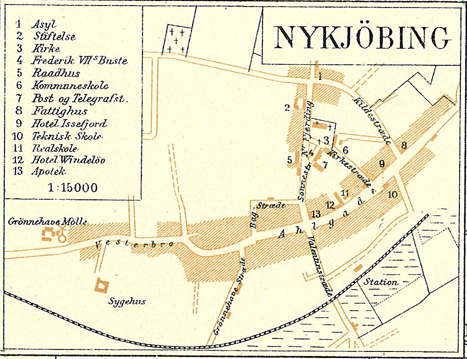 Map of Holbæk County in Denmark